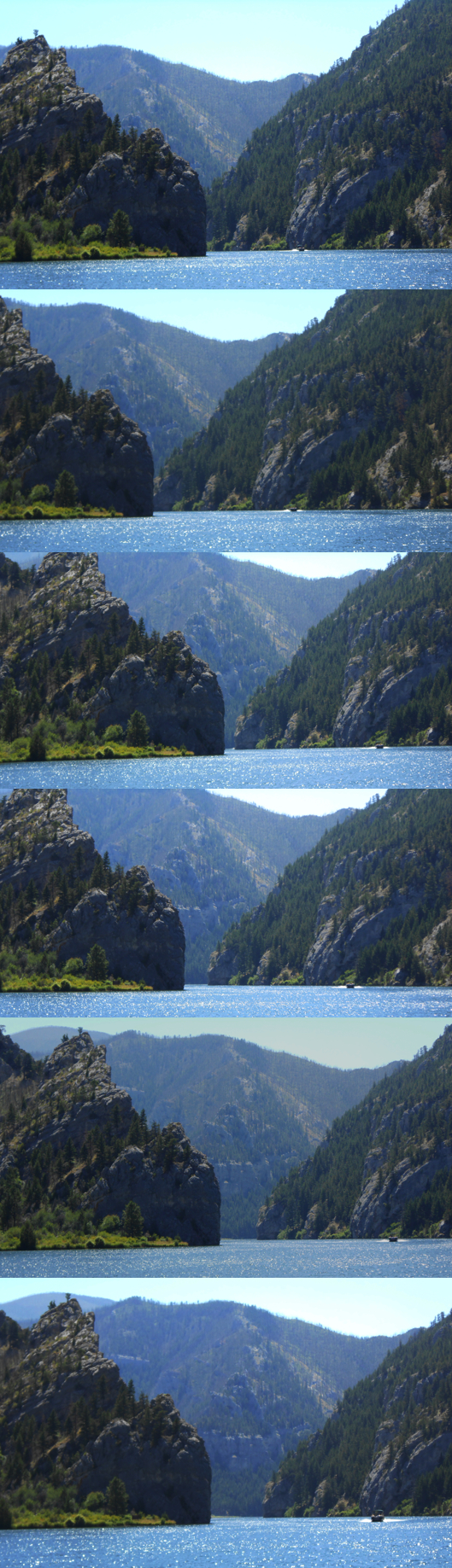 The approach−"opening" of the "Gates of the Mountains" — as they would have been viewed by the 1807 Lewis and Clark Expedition going upriver. Outcrops of massive Madison Limestone flank the Missouri River at the 'narrows.' Located within the Gates of the Mountains Wilderness Area of the Helena National Forest, in Lewis and Clark County, Montana.